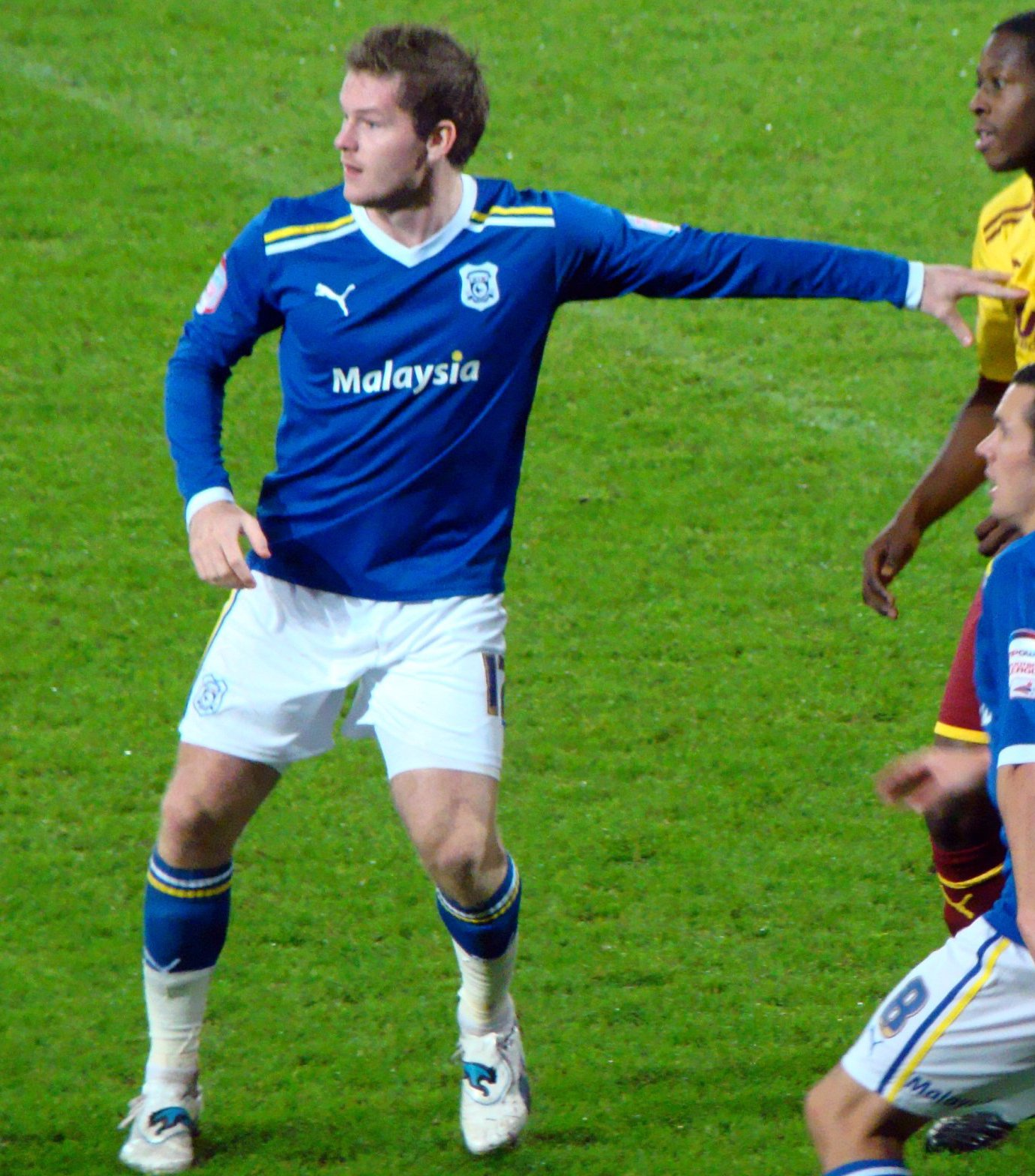 25/10/11 Cardiff V Burnley, Carling Cup, Cardiff City Stadium, Cardiff, Wales